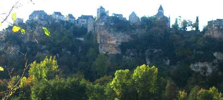 Calvignac, France, departement Lot